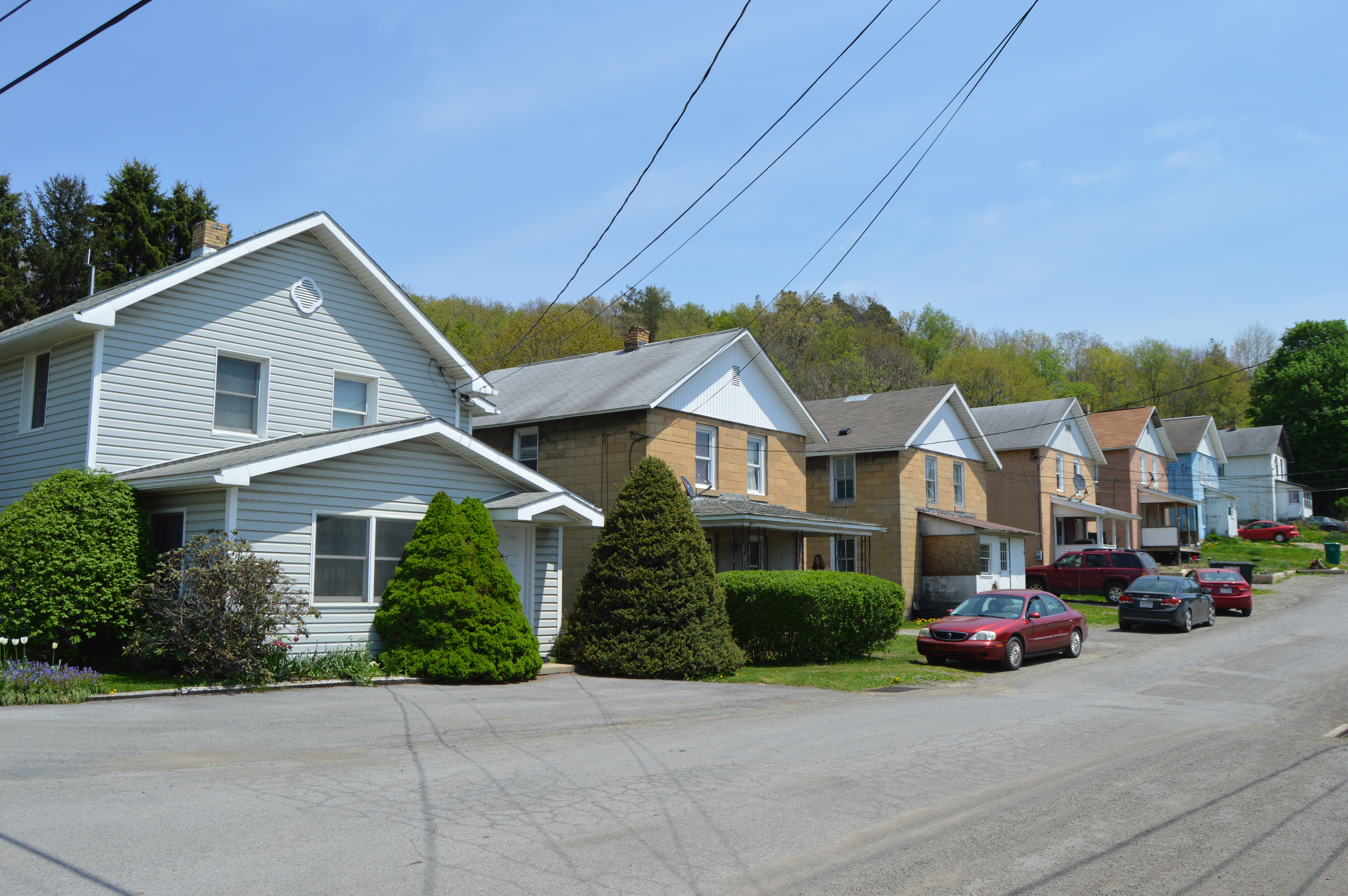 Houses on the northern side of Herriman Street east of the Blueberry Street intersection in Commodore, Pennsylvania, United States. Built by a coal company as residences for its employees, the village has been named a historic district, the "Commodore Historic District", and listed on the National Register of Historic Places.